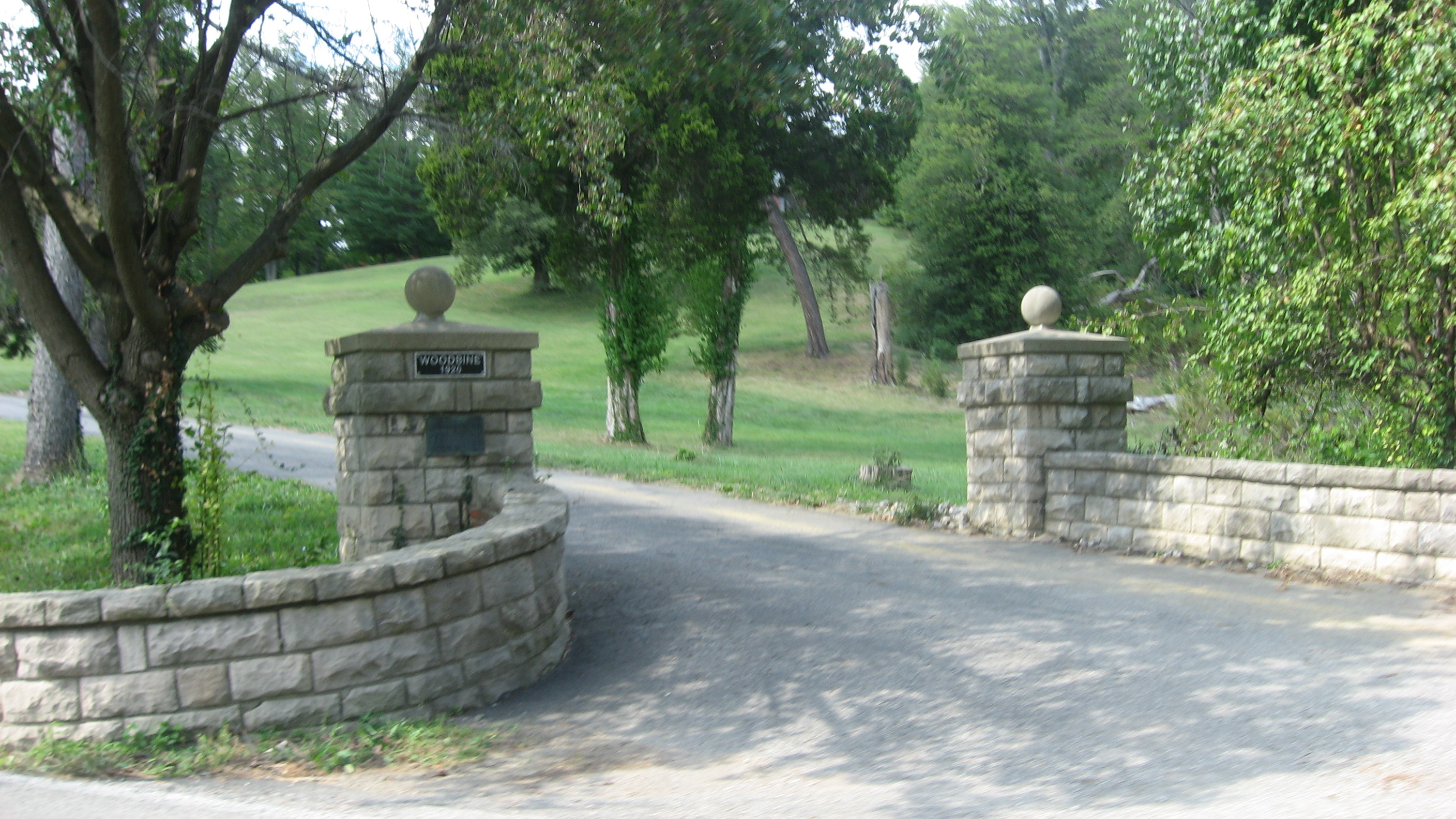 Gateway to the driveway for Woodbine, located at 1900 Old Vincennes Road in New Albany, Indiana, United States. Built in 1920, it is listed on the National Register of Historic Places.